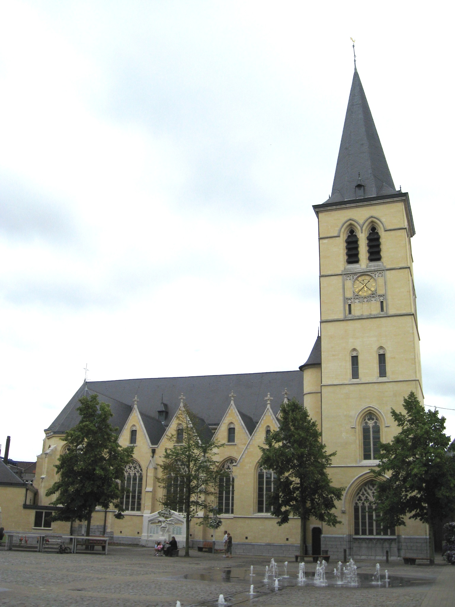 Church of Saint Michael in Bree, Limburg, Belgium